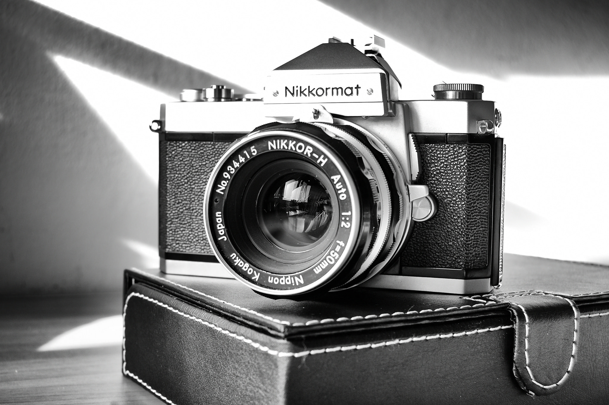 500px provided description: My beloved Nikkormat Ft In other words, how I began with all the analog process. [#retro ,#vintage ,#film ,#analog ,#still life ,#camera ,#lens ,#Nikkormat ,#Ft]